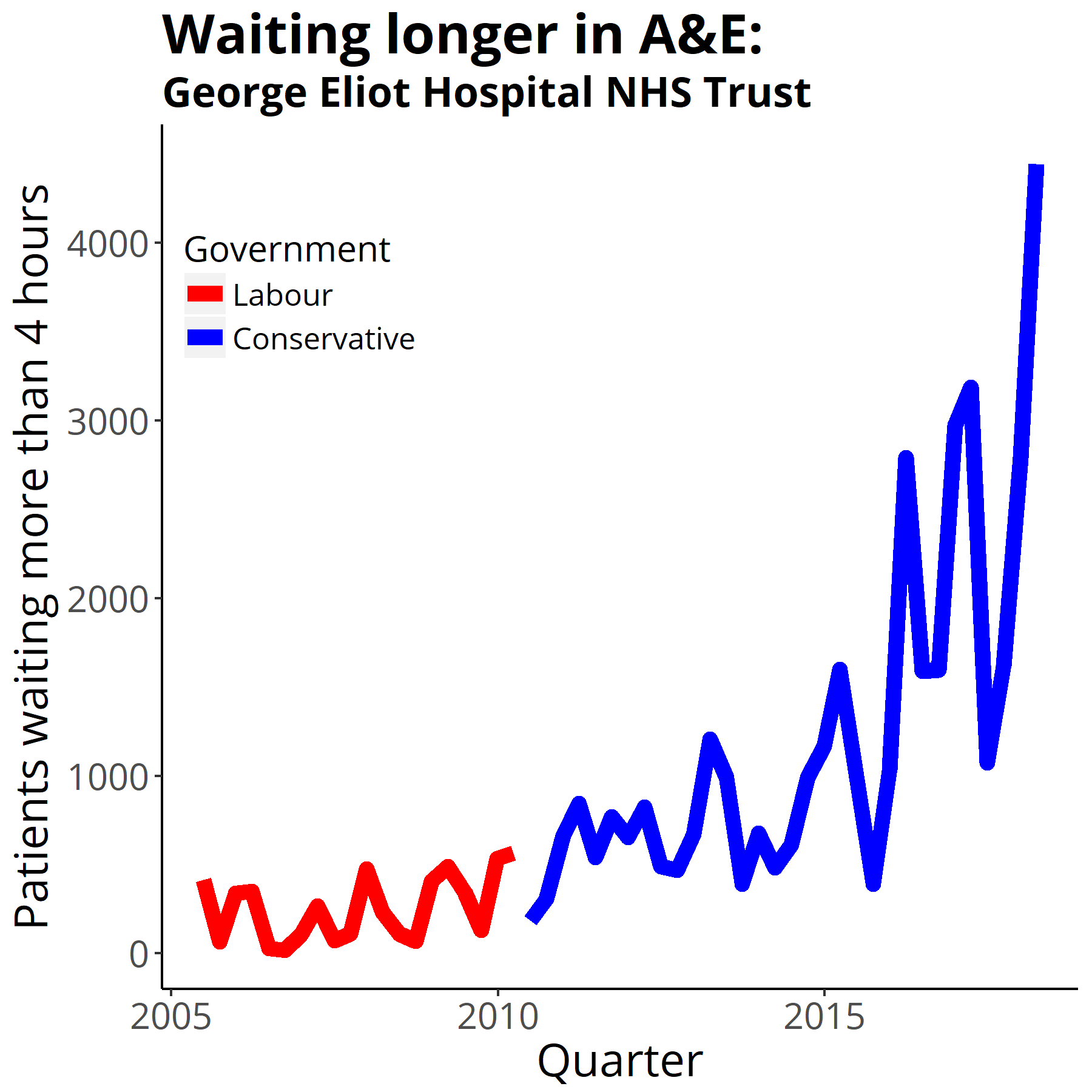 Four-hour target in the emergency department quarterly figures from NHS England Data from